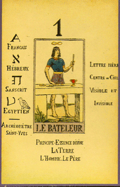 Page with tarot trump design from Papus: Le Tarot Divinatoire. Le Livre des Mystères et les Mystères du Livre. Clef du tirage des cartes et des sorts. Avec la reconstitution complète des 78 lames du Tarot Égyptien et de la méthode d'interprétation. Les 22 arcanes majeurs et les 56 arcanes mineurs. Libr. Hermétique, Paris 1909.